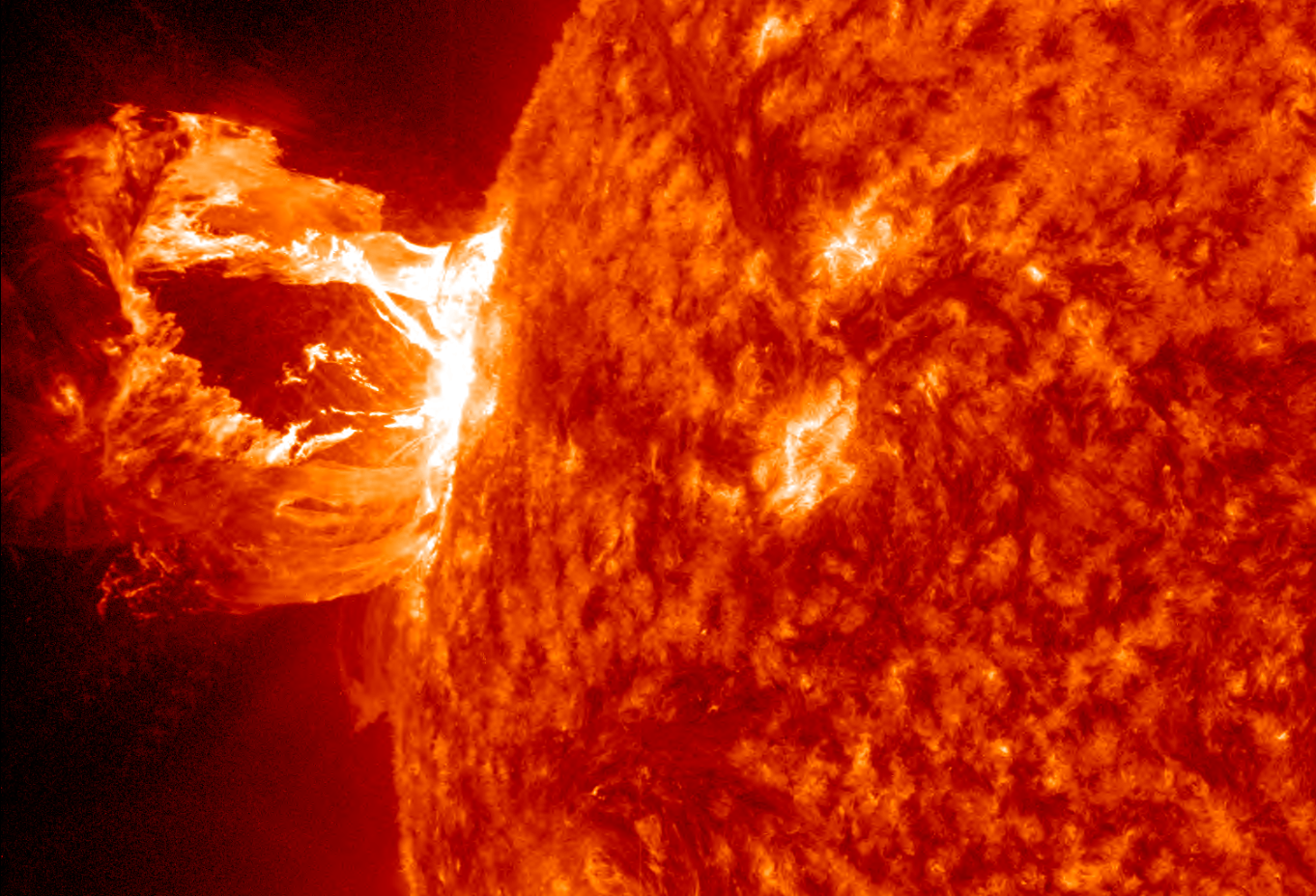 A beautiful prominence eruption shot off the east limb (left side) of the sun on Monday, April 16, 2012. Such eruptions are often associated with solar flares, and in this case an M1 class (medium-sized) flare did occur at the same time, though it was not aimed toward Earth. This event, which is still in progress, was seen by NASA’s SDO satellite. View a video of this event here: Credit: NASA/GSFC/SDO NASA image use policy NASA Goddard Space Flight Center enables NASA’s mission through four scientific endeavors: Earth Science, Heliophysics, Solar System Exploration, and Astrophysics. Goddard plays a leading role in NASA’s accomplishments by contributing compelling scientific knowledge to advance the Agency’s mission. Follow us on Twitter Like us on Facebook Find us on Instagram